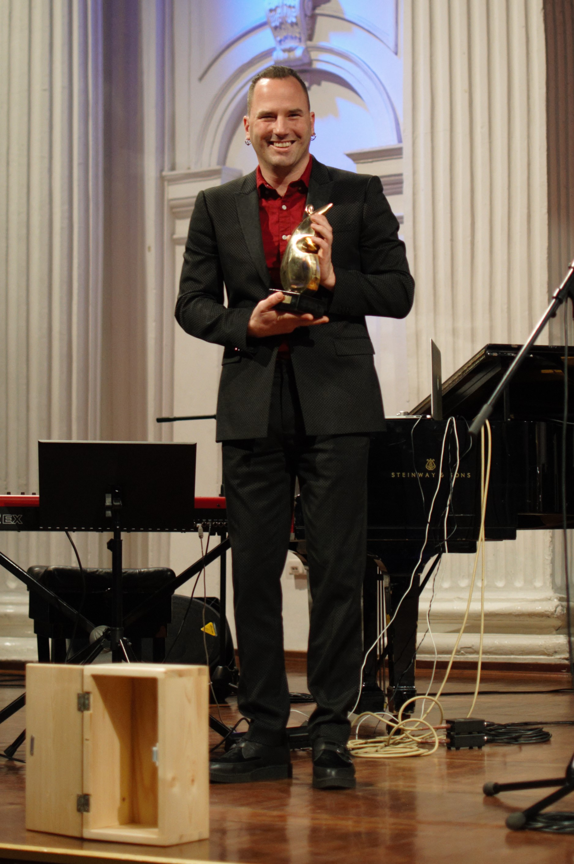 Srpski (latinica): Djordje Stijepović receiving an award from World Music Association of Serbia, December 18, 2019